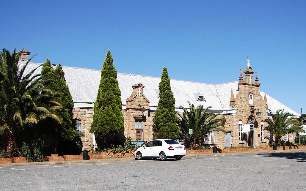 Klerksdorp Railway Station, built in 1897 as the western terminus of the NZASM south-western line. This media shows a South African Protected Site with SAHRA file reference 9/2/231/0003 See also: External entry in South African Heritage Resource Agency database.